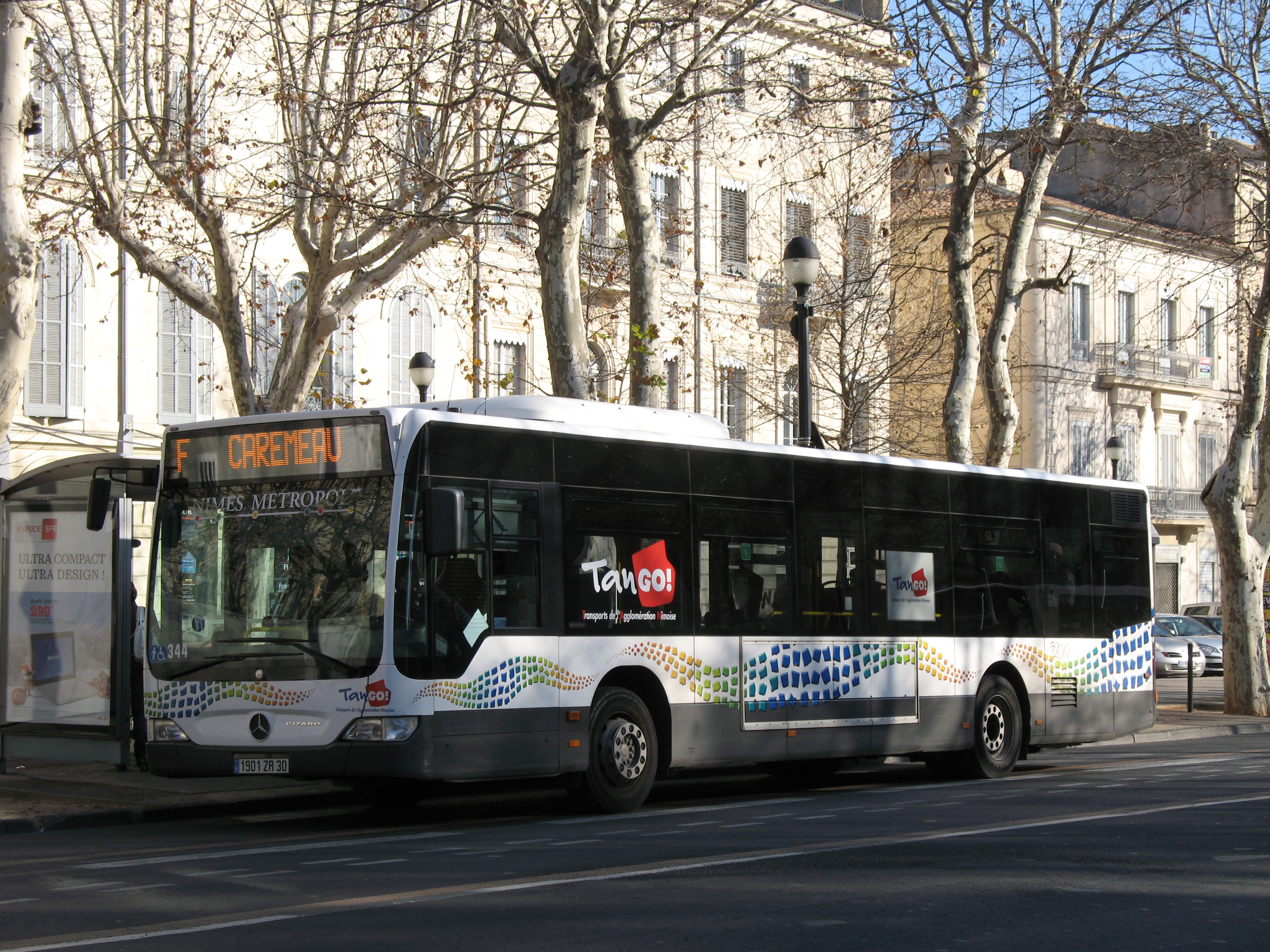 A Mercedes-Benz Citaro of the Tango's network city bus in Nîmes_France.